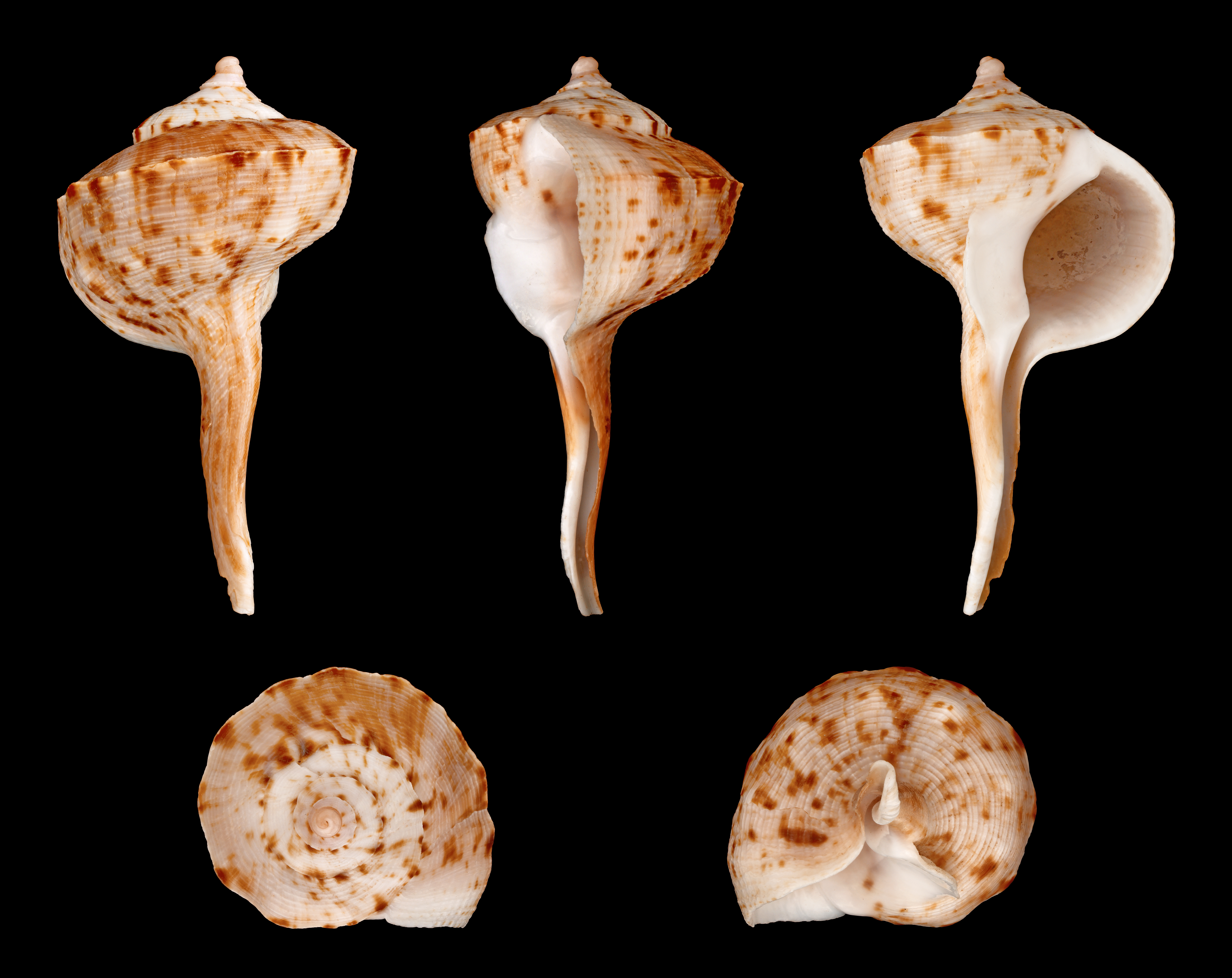 Spiral Tudicla; Length 7.9 cm; Originating from Sri Lanka; Shell of own collection, therefore not geocoded. Dorsal, lateral (right side), ventral, back, and front view.